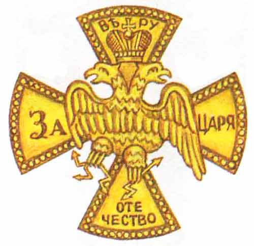 Badge of Finlandsky Guard Regiment